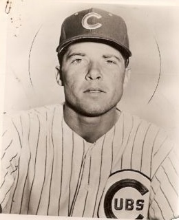 An early 1960s Houston Colt 45's press photo of Dick Drott, who was drafted by the team in 1962. The website also shows the information about Drott in the back of the photograph (which I can upload in request), and without a copyright notice. A check of several other pictures doesn't include copyright notices. It is therefore presumed the entire Colt 45s press kit is PD not renewed/PD no copyright 1978.